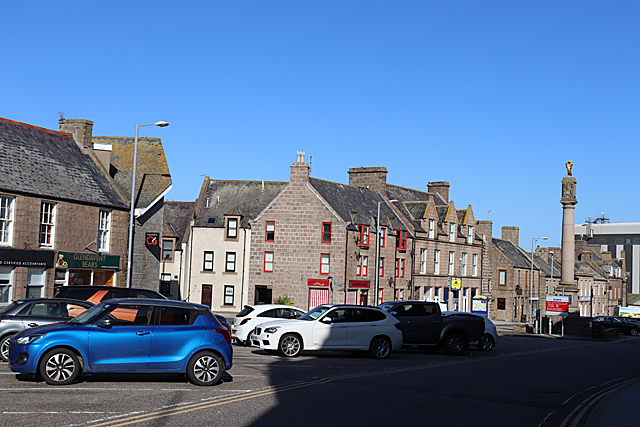 Broad Street, Peterhead, Scotland.